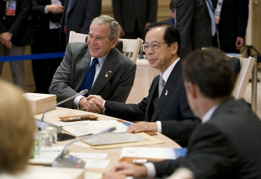 President George W. Bush and Prime Minister Yasuo Fukuda shake hands at the Windsor Hotel Toya Resort and Spa in Tōyako Town, Abuta District, Hokkaidō on July 8, 2008.